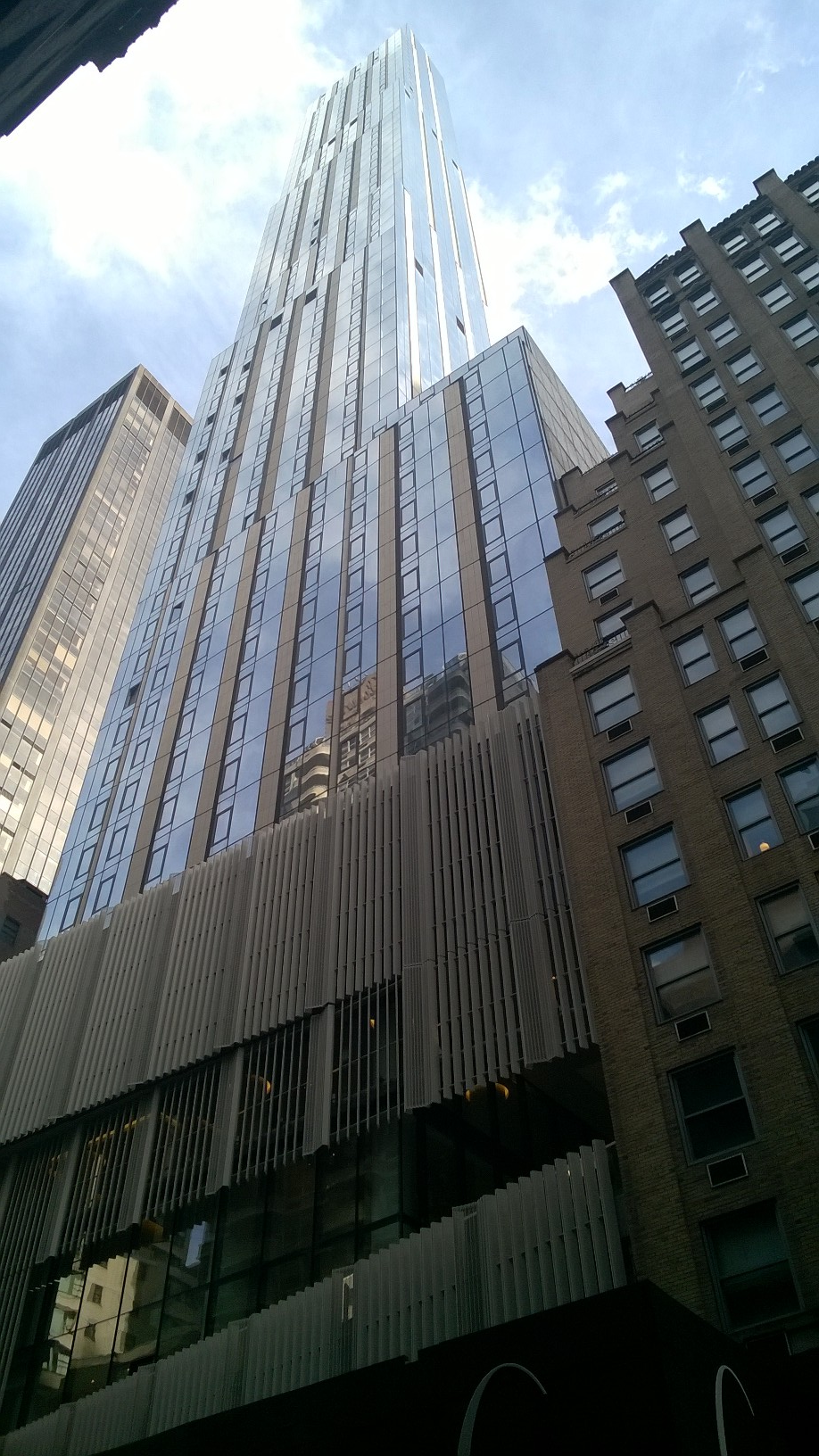 Exterior shot of 138 East 50th Street in New York City, looking south.